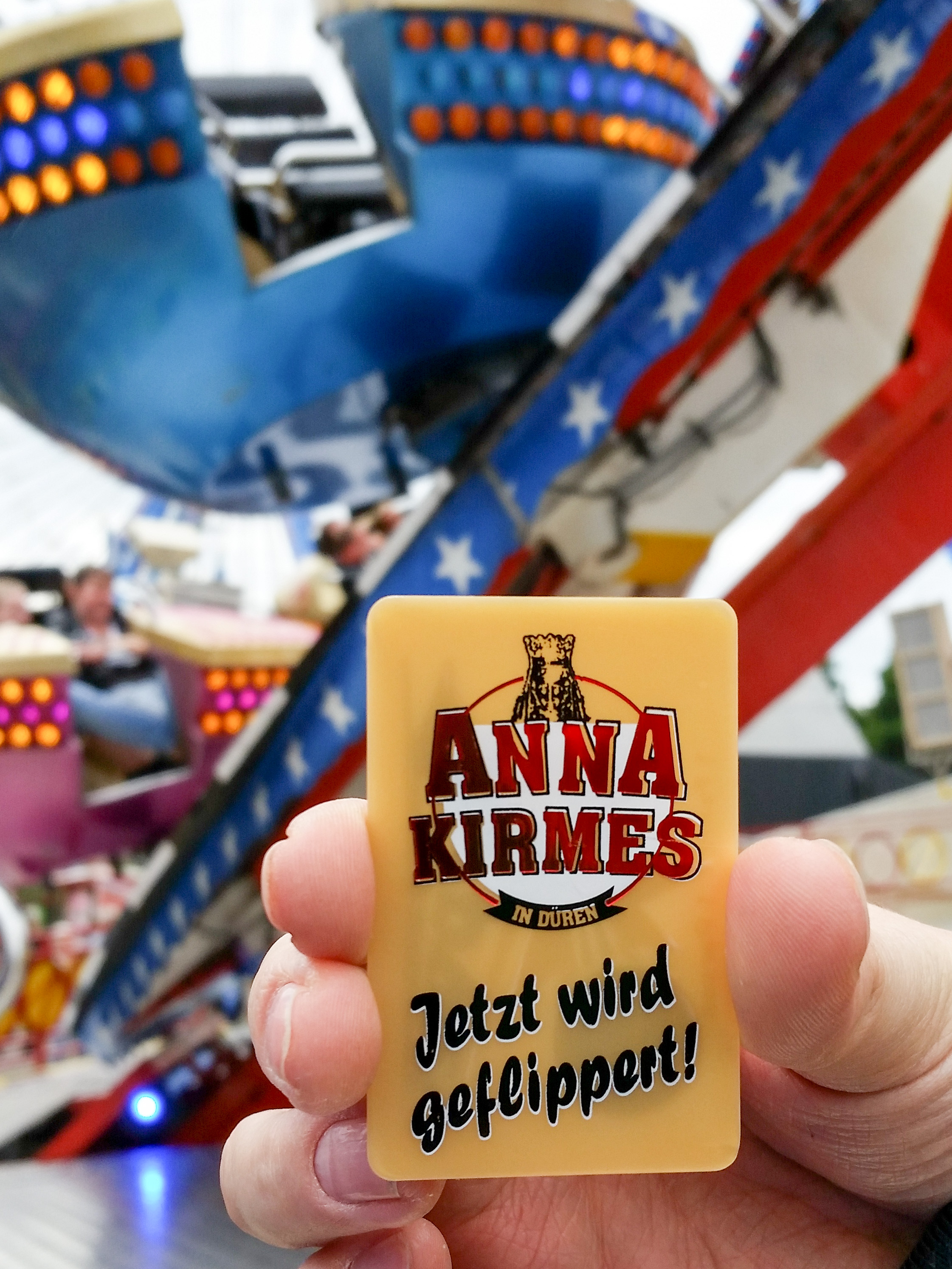 Special token for Flipper by Meeß